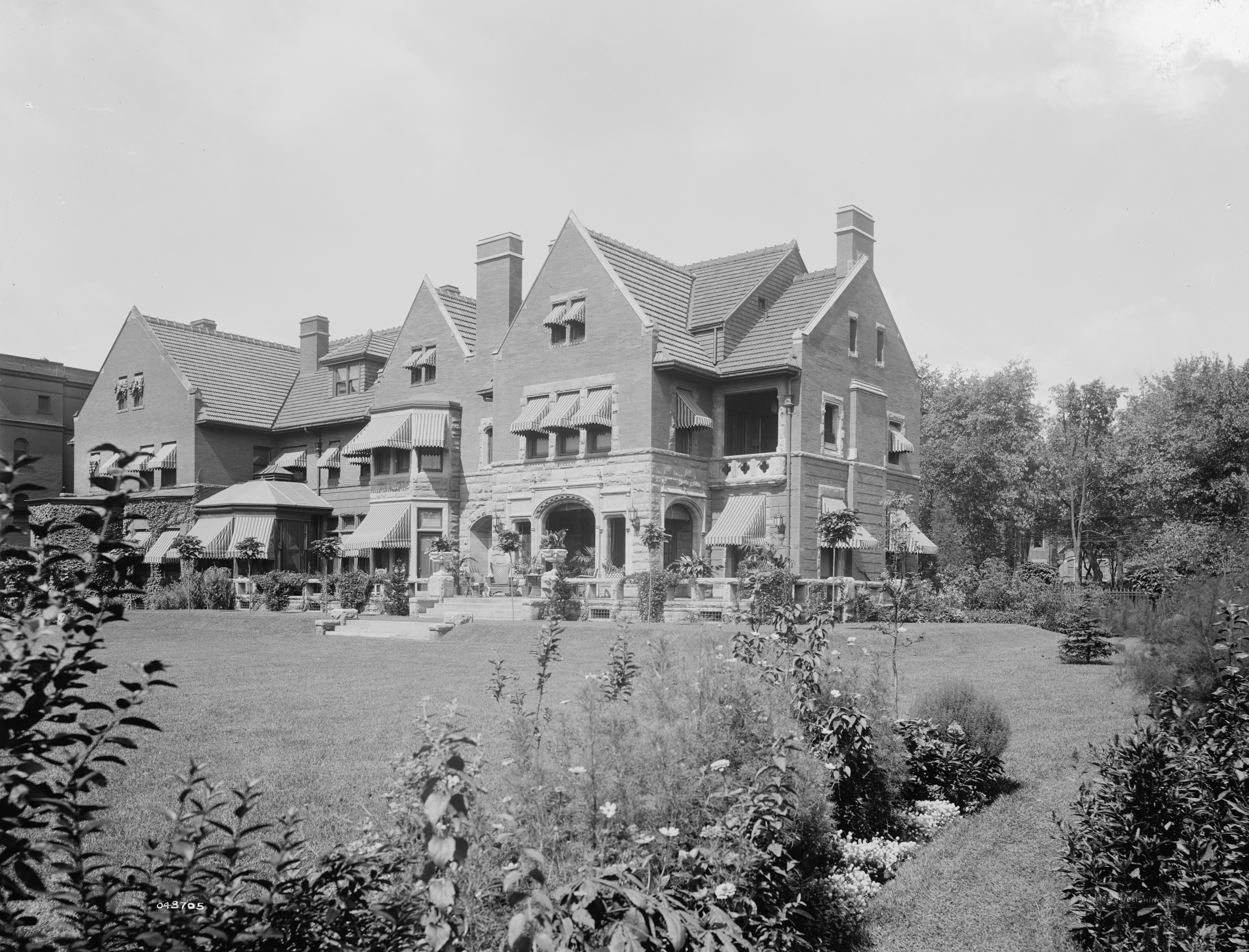 Franklin H. Walker House — residence of Franklin H. Walker, 850 Jefferson Avenue — in Detroit, Michigan. It was also known as Doctor's Hospital - and used until 1980 as a hospital. On the National Register of Historic Places - but subsequently demolished.